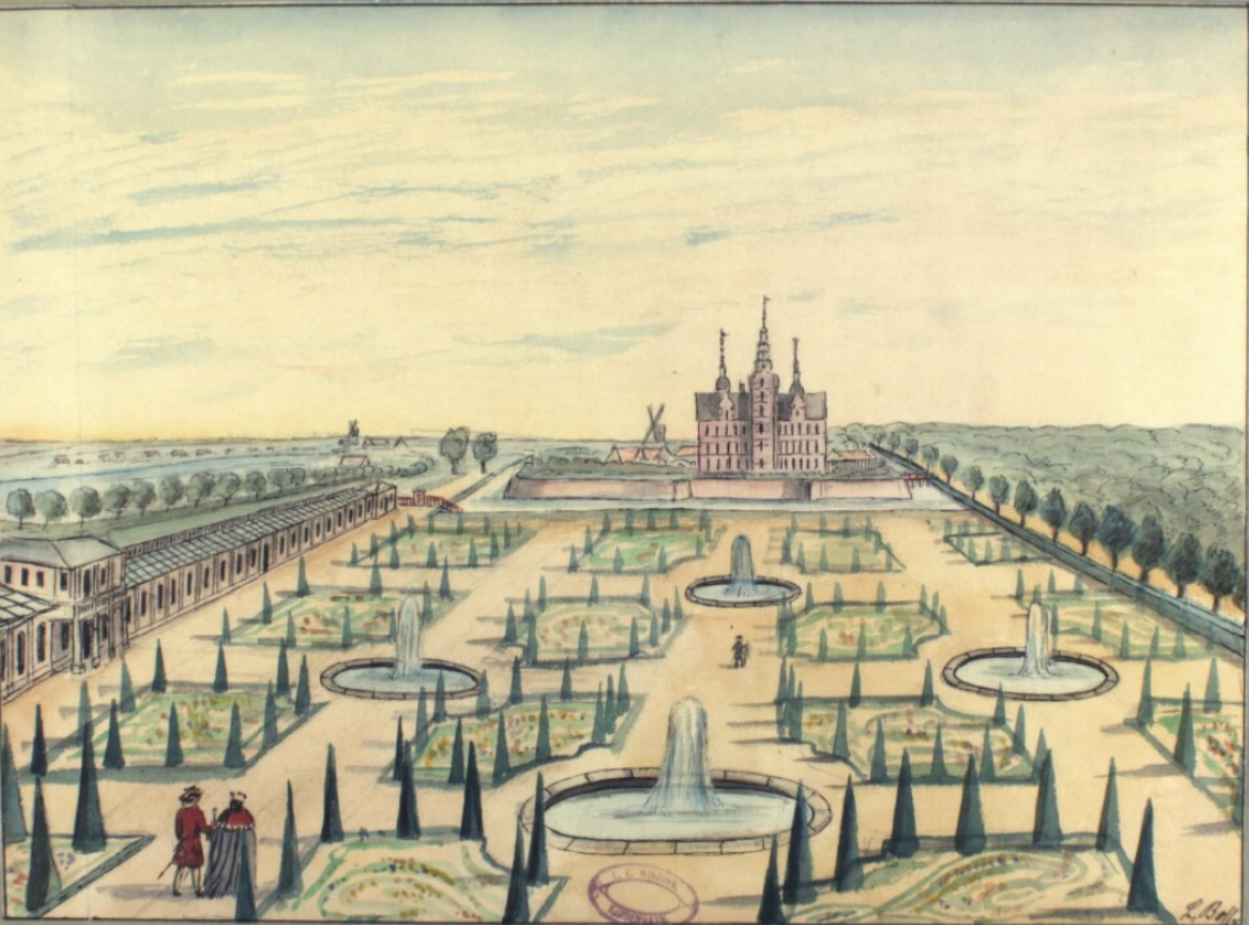 Det Konglige Orangerie i Rosenborg Have, 1749